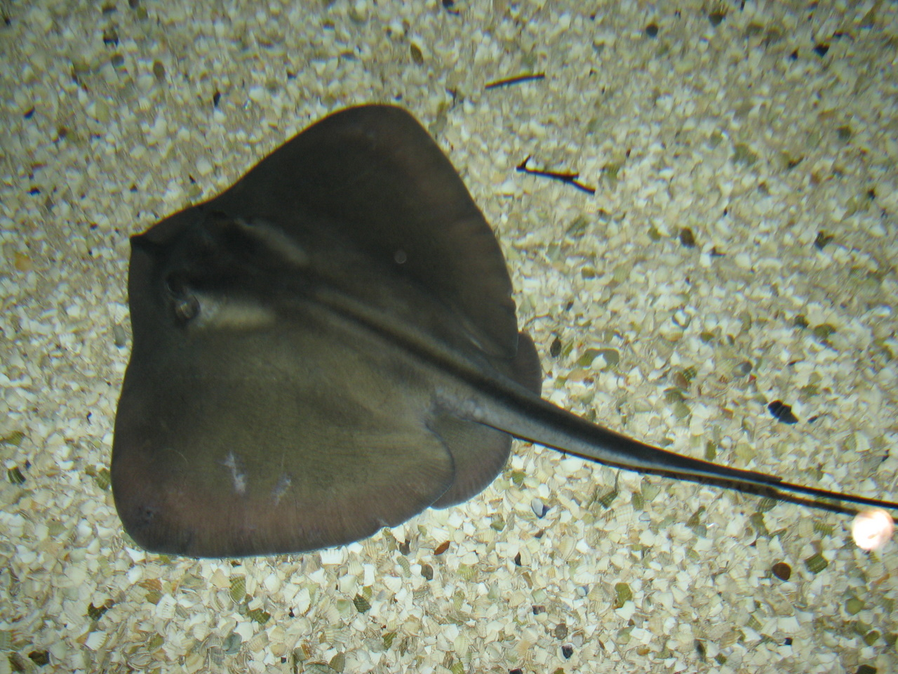 Common stingray (Dasyatis pastinaca) at the Blue Reef Aquarium, Tynemouth, UK